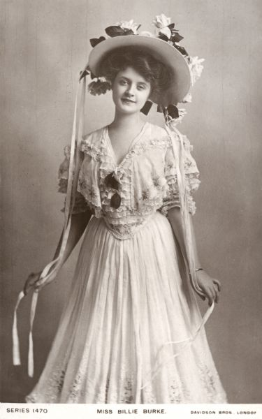 Billie Burke wearing a lovely white dress and large hat decorated with roses in a nearly full length publicity postcard distributed in 1905 for her appearance in The Blue Moon which played at the Lyric Theatre in London, England.